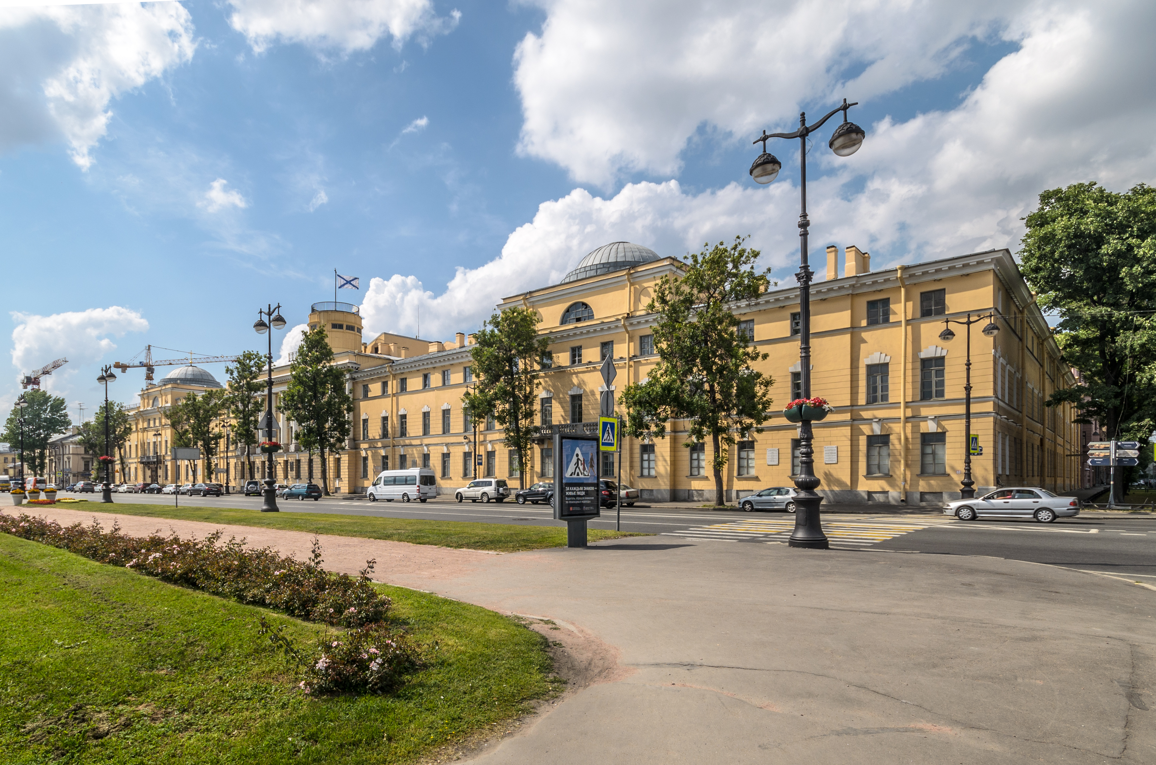 Peter the Great Naval Institute of Saint Petersburg